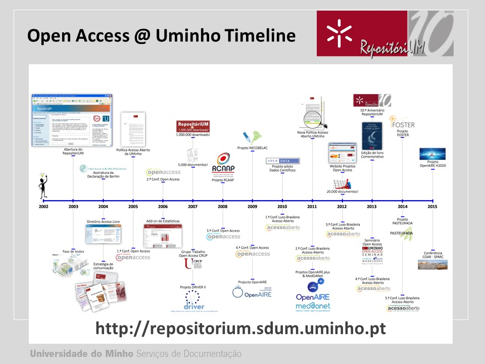 This image collects the major initiatives (events, projects, milestones) related to Open Access at the University of Minho and in Portugal.